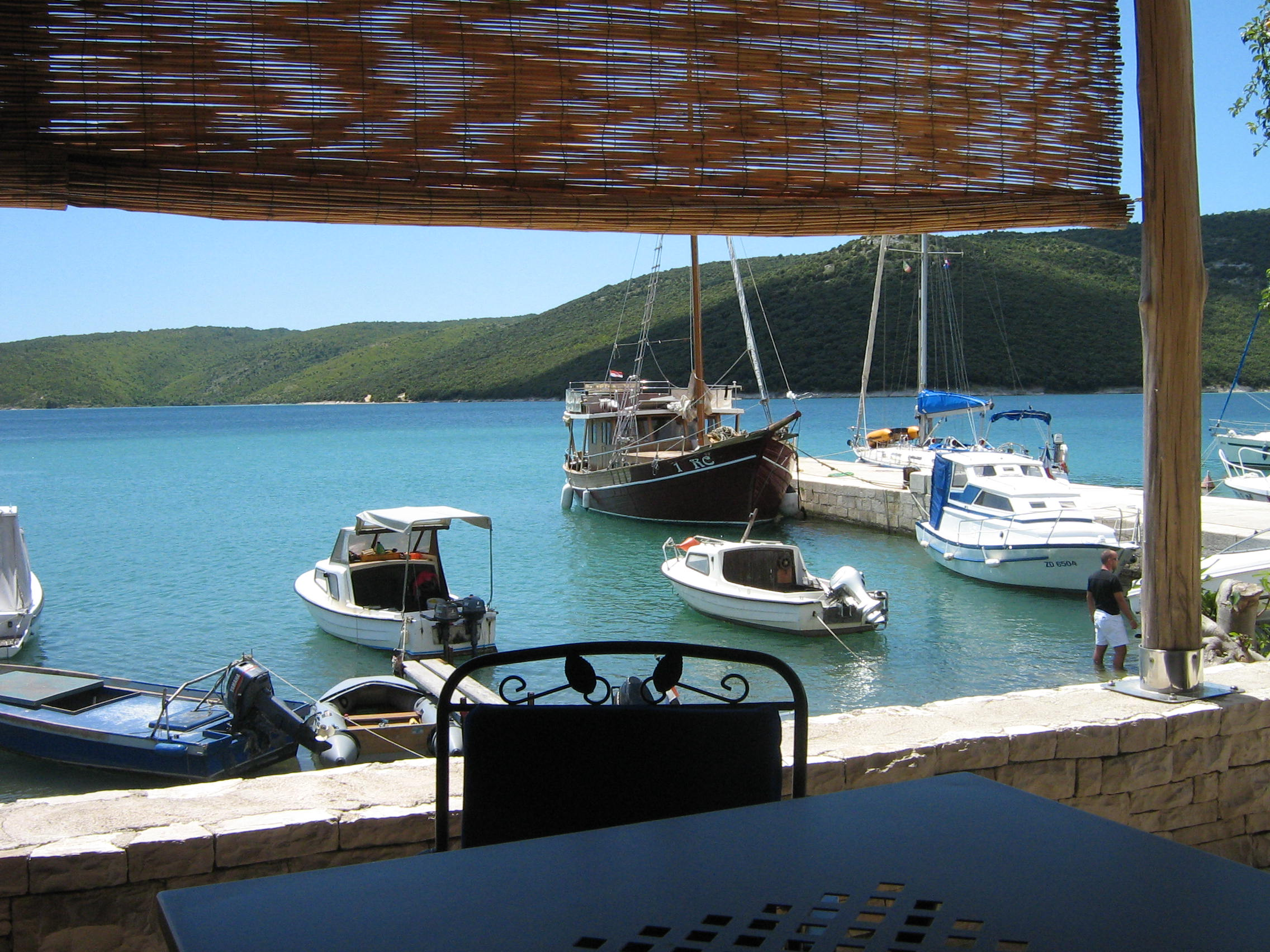 Trget, Istra, Croatia